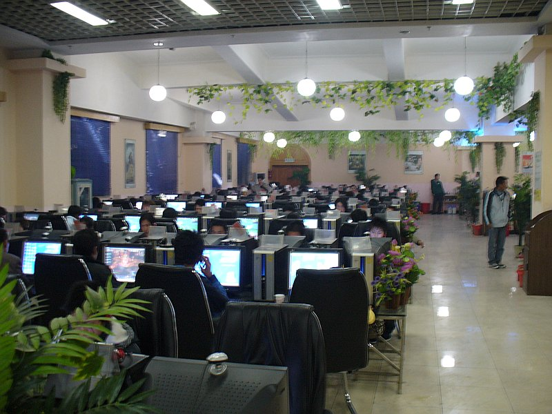 Chinese internet café in Lijiang, Yunnan, PR China from the inside.